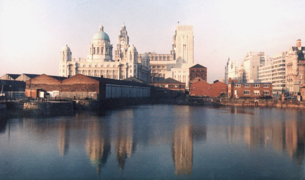 Liverpool waterfront. Pier Head, "Three Graces", seen from Albert Dock.